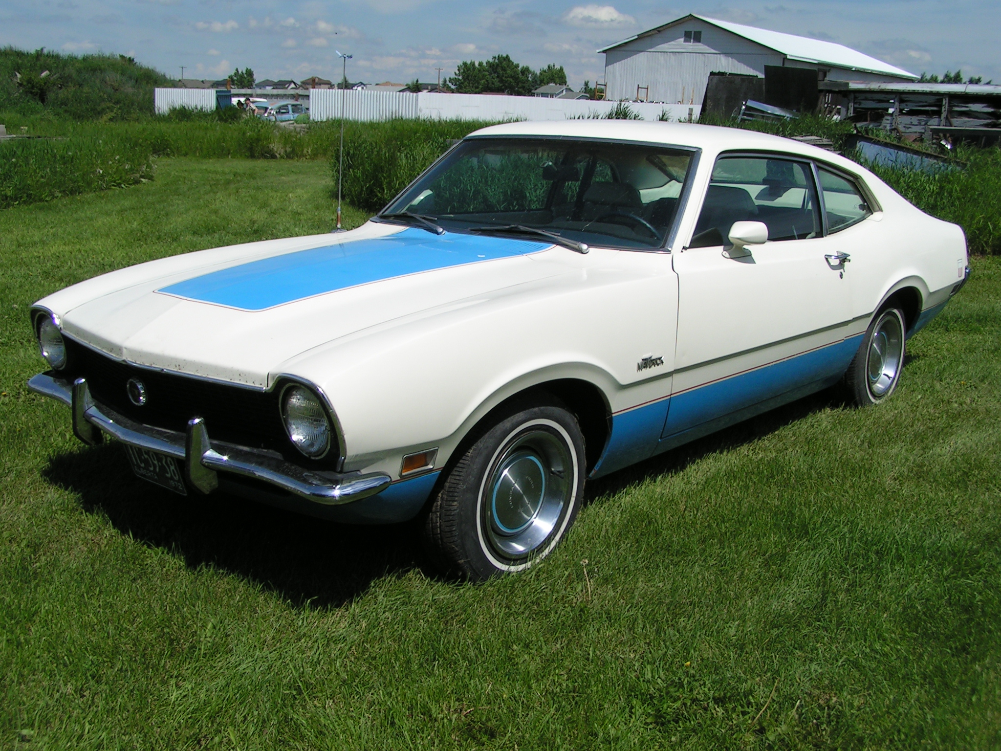 1972 Ford Maverick Sprint with distinctive blue and white paint.